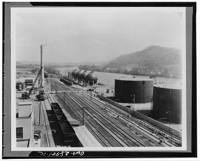 Grain alcohol storage tanks (foreground, right) and butadiene storage tanks (background, center) at the Institute Plant along the Kanawha River in Institute, West Virginia, USA. Photographed between 1935 and 1945.